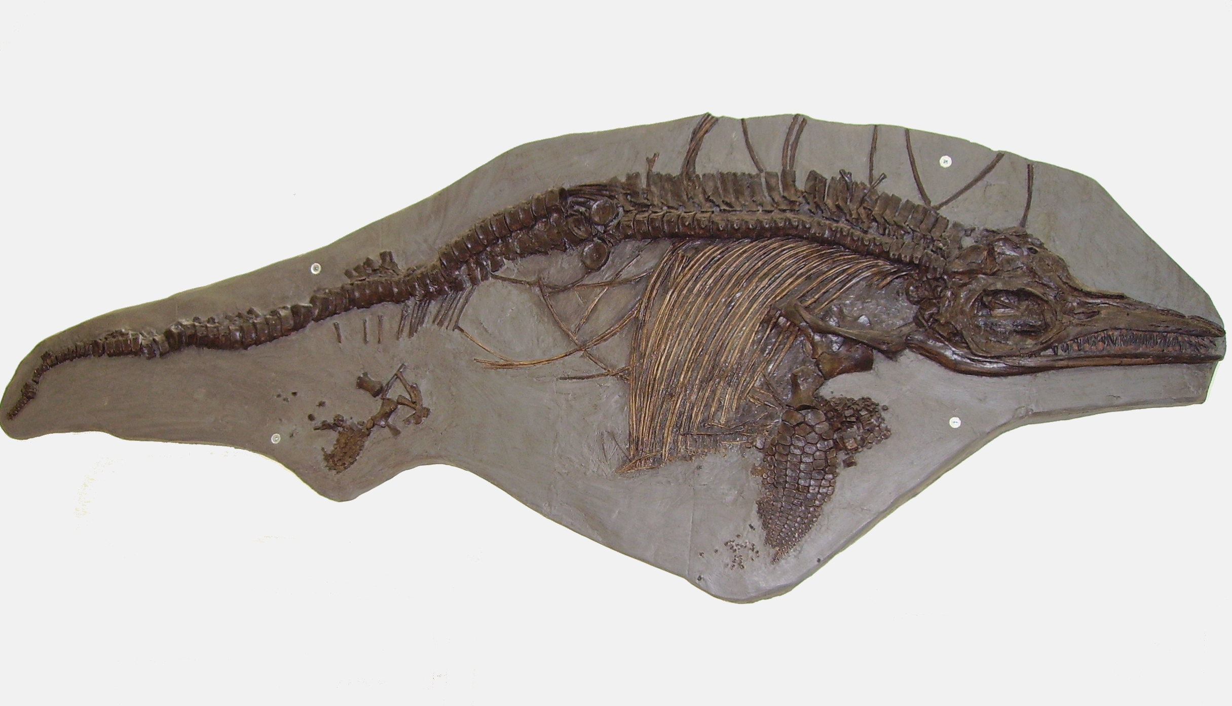 Photographer: User:Ballista from the Charmouth Heritage Coast Centre, Charmouth, England